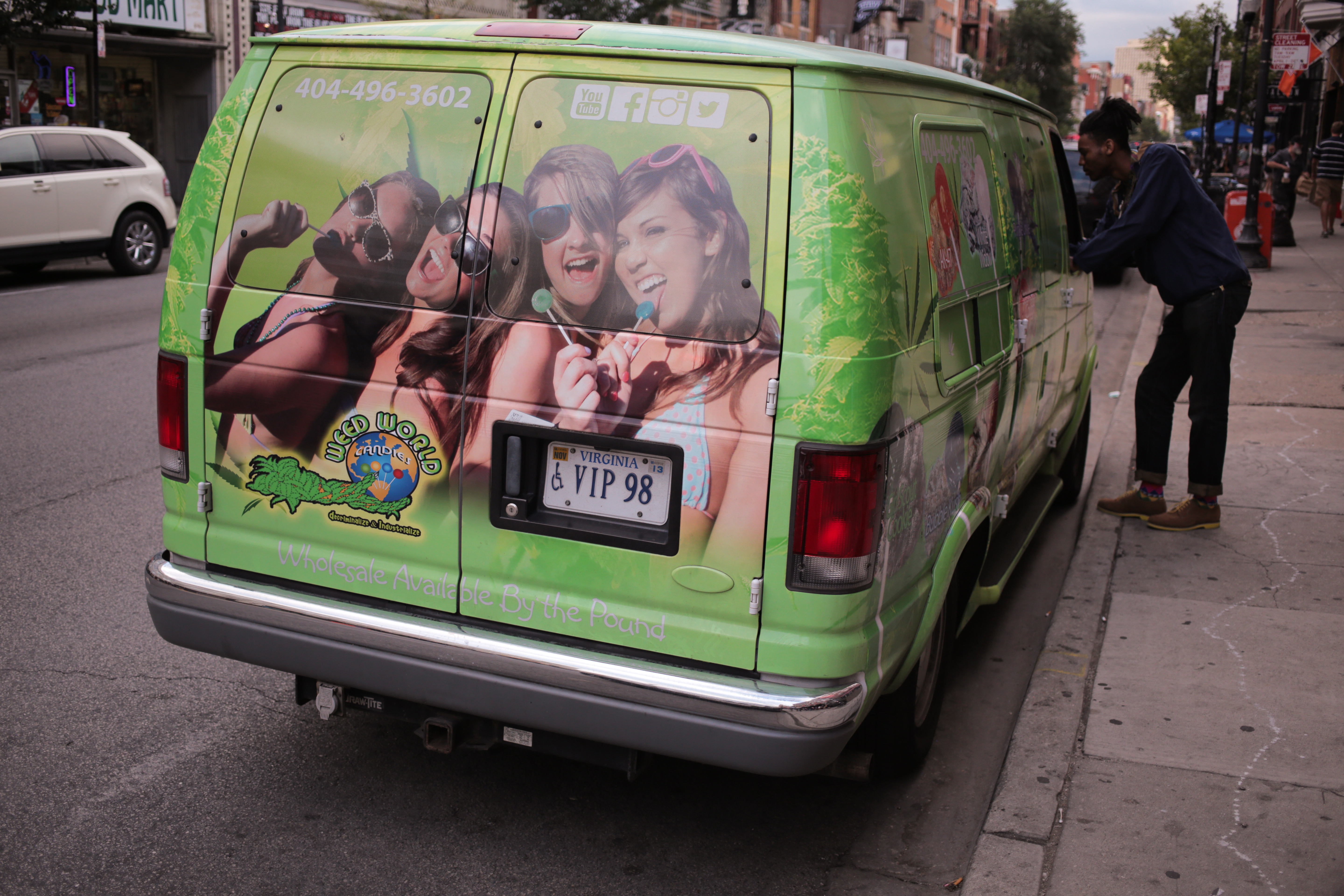 Weed World Candies - Photo Walk Chicago September 2, 2013-4901